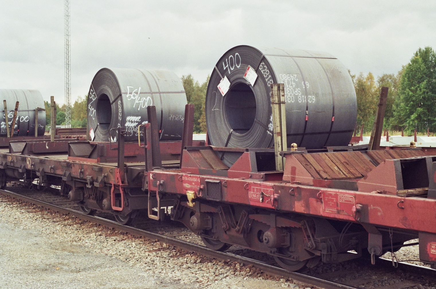 Rolled steel coils (obviously about 24 500 kg each) in the VR freight yard in Tornio, Finland.